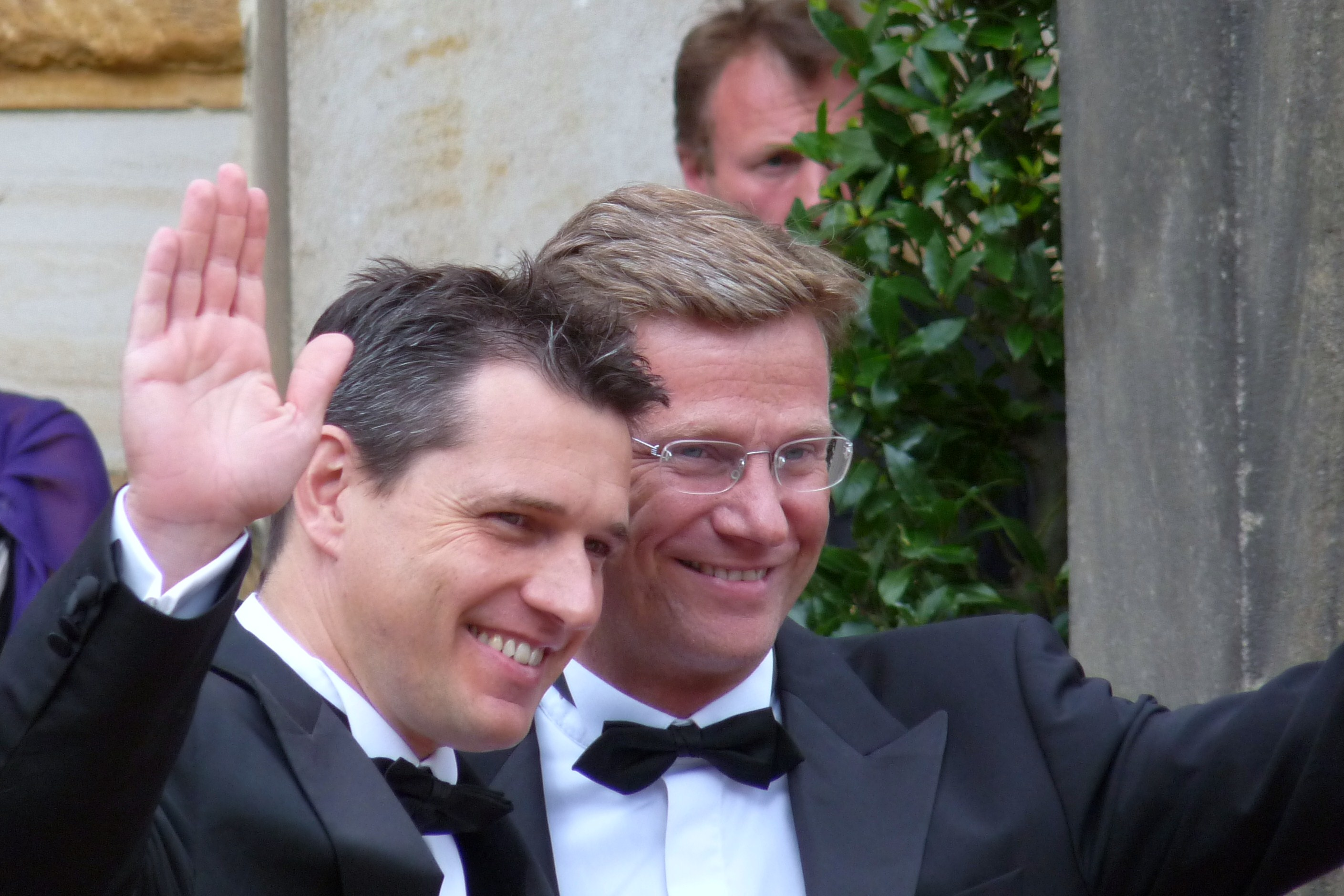 German politician Guido Westerwelle and his significant other Michael Mronz at the premiere of the Bayreuth Festival 2009.